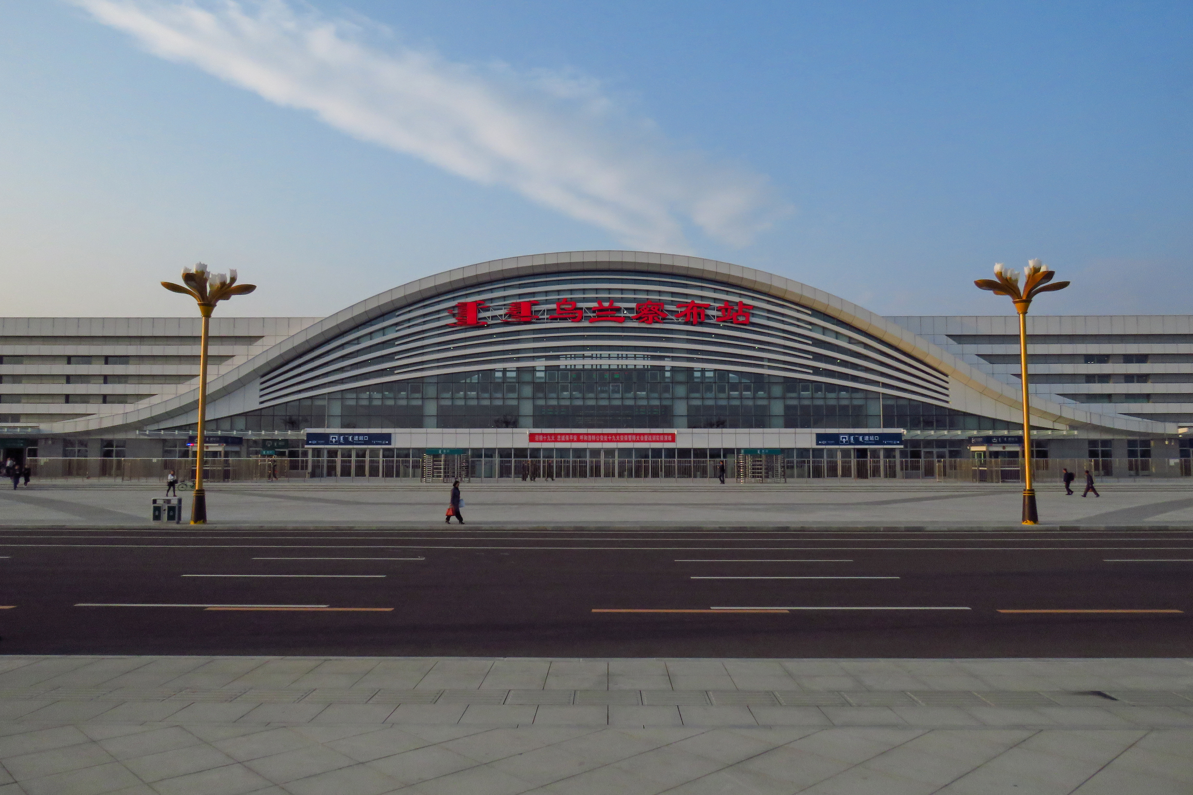 Got a profile near sunset. The Mongolian script doesn't seem to get on well with CRLi...Монгол: ᠤᠯᠠᠭᠠᠨᠴᠠᠪ ᠥᠷᠲᠡᠭᠡ; Улаанцав өртэгэ